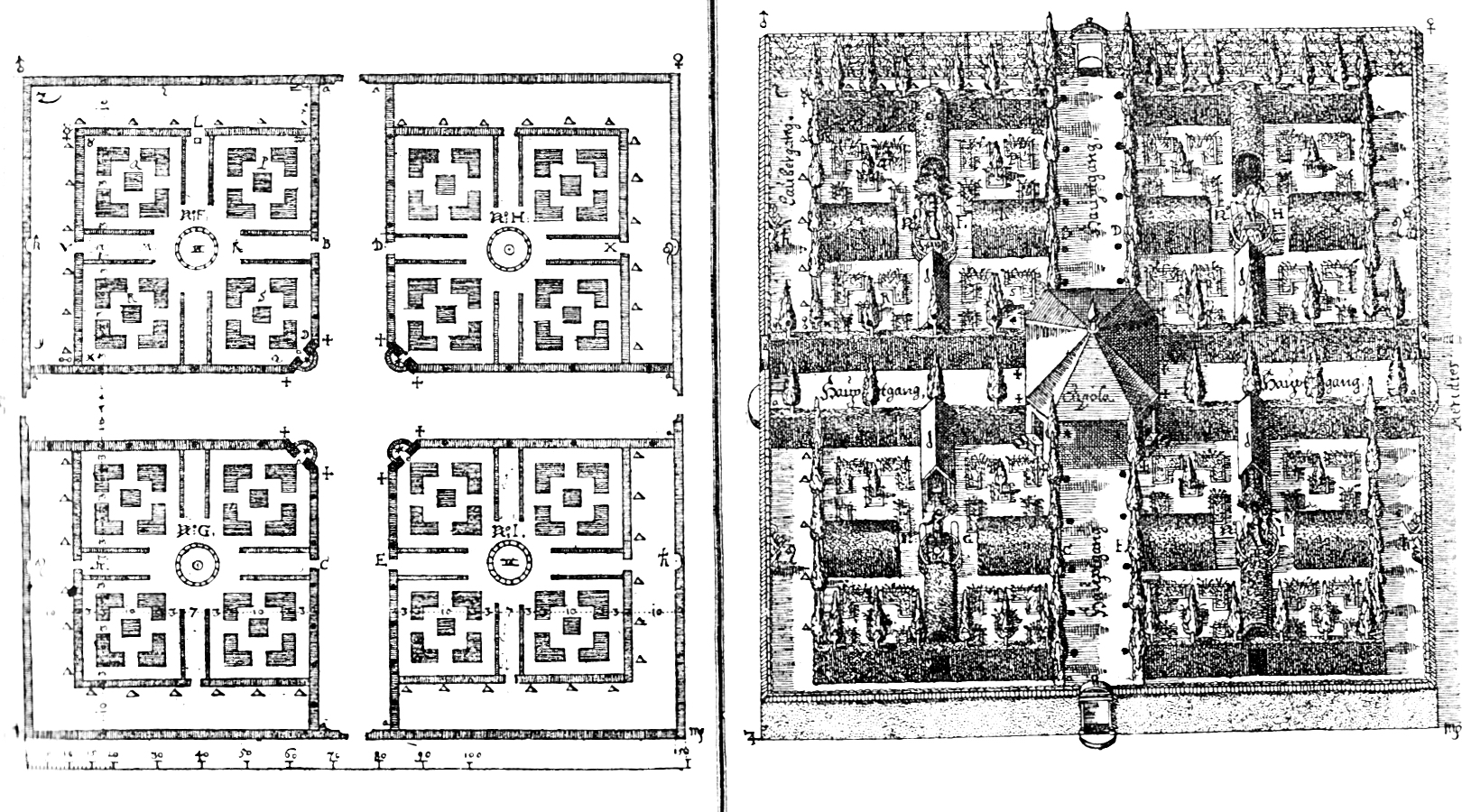 Schoolgarden, Engraving in: J.Furttenbach, Paradiesgaertlein, 1663